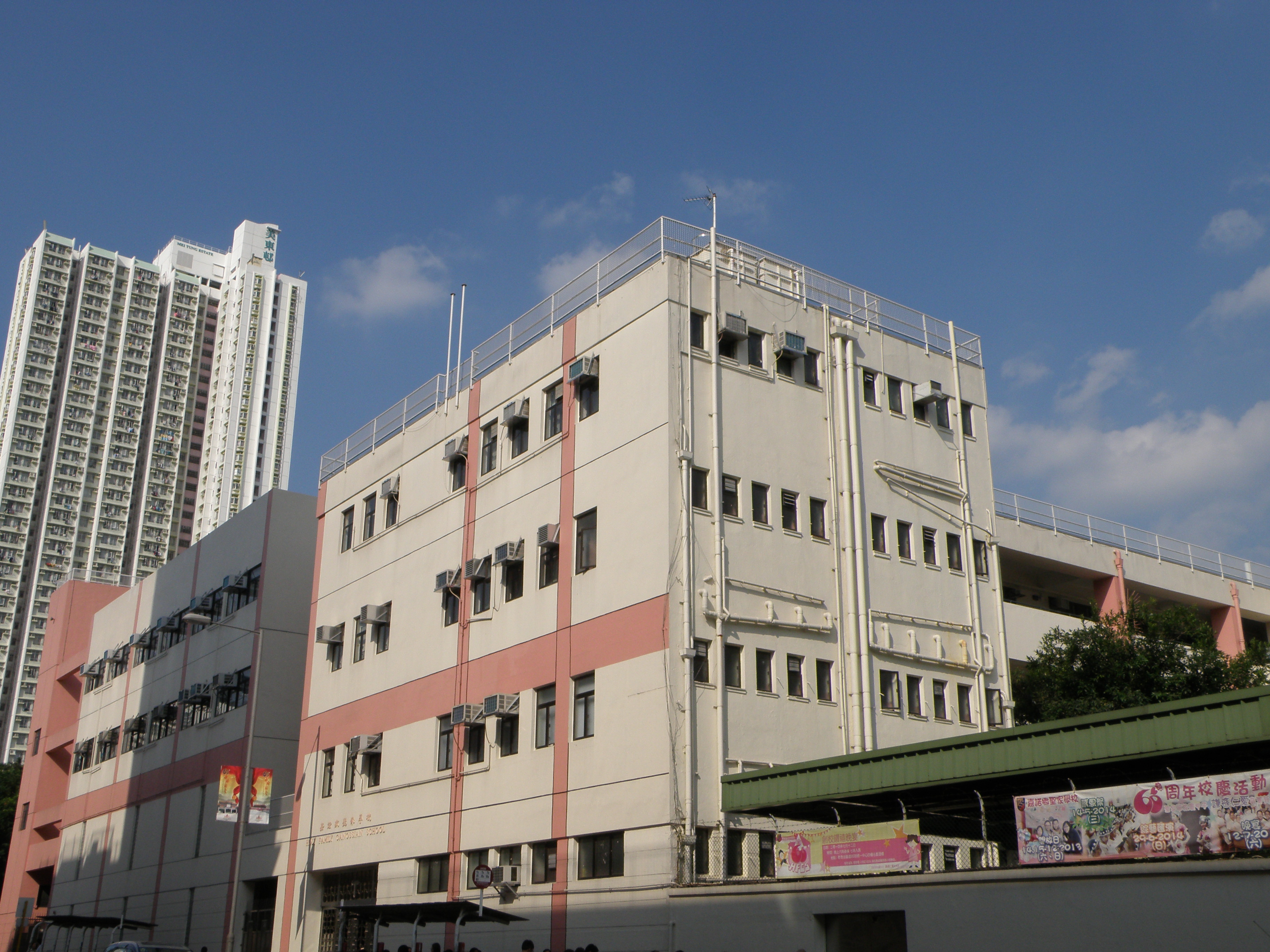 Holy Family Canossian School in Kowloon City, Hong Kong.